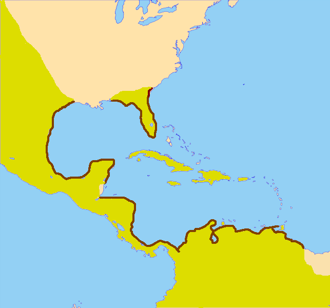 The Spanish Main, in bold. Spanish possessions in yellow.